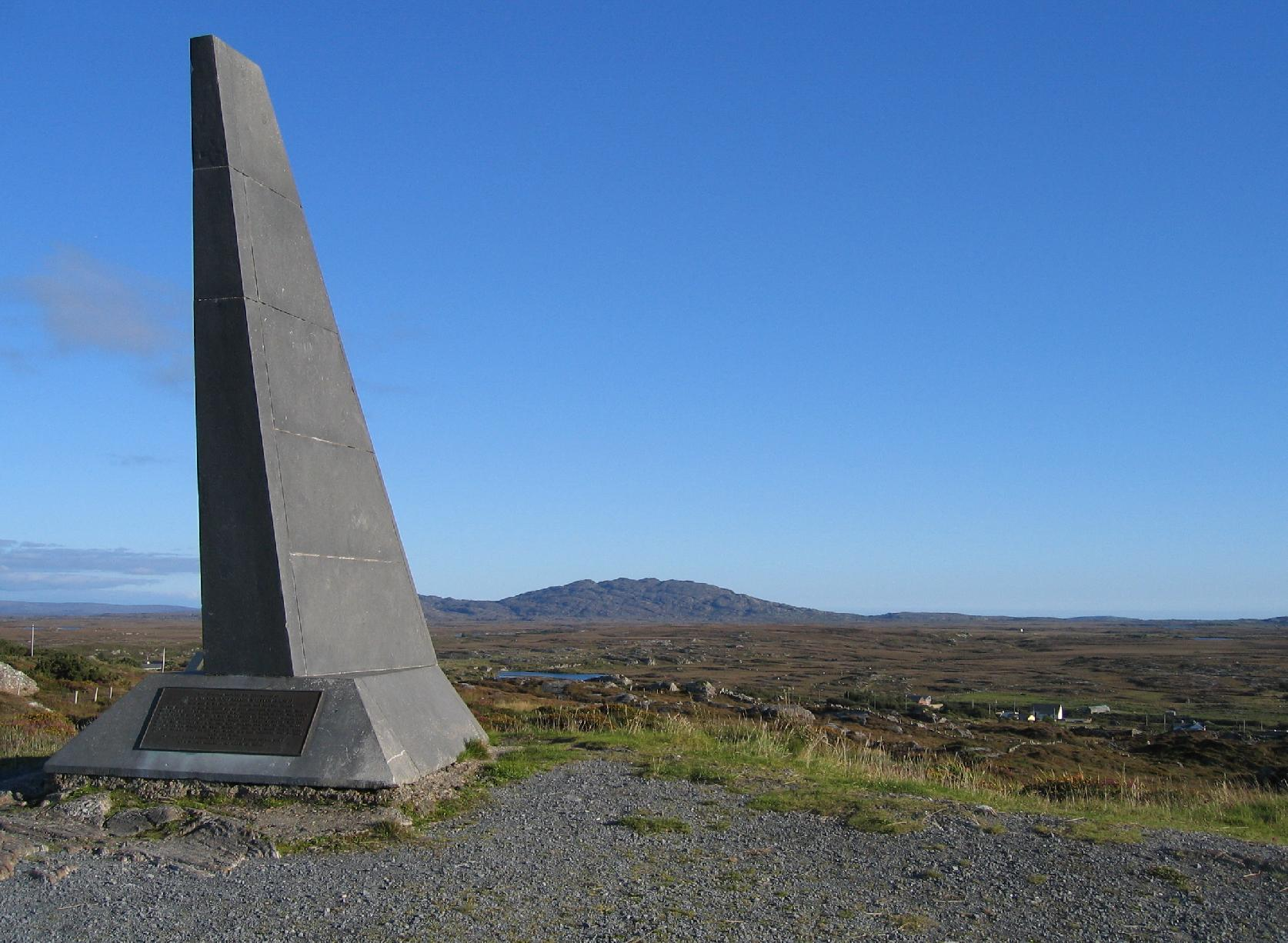 A memorial to the pioneering transatlantic flight of Alcock and Brown, near Clifden, County Galway, Ireland.